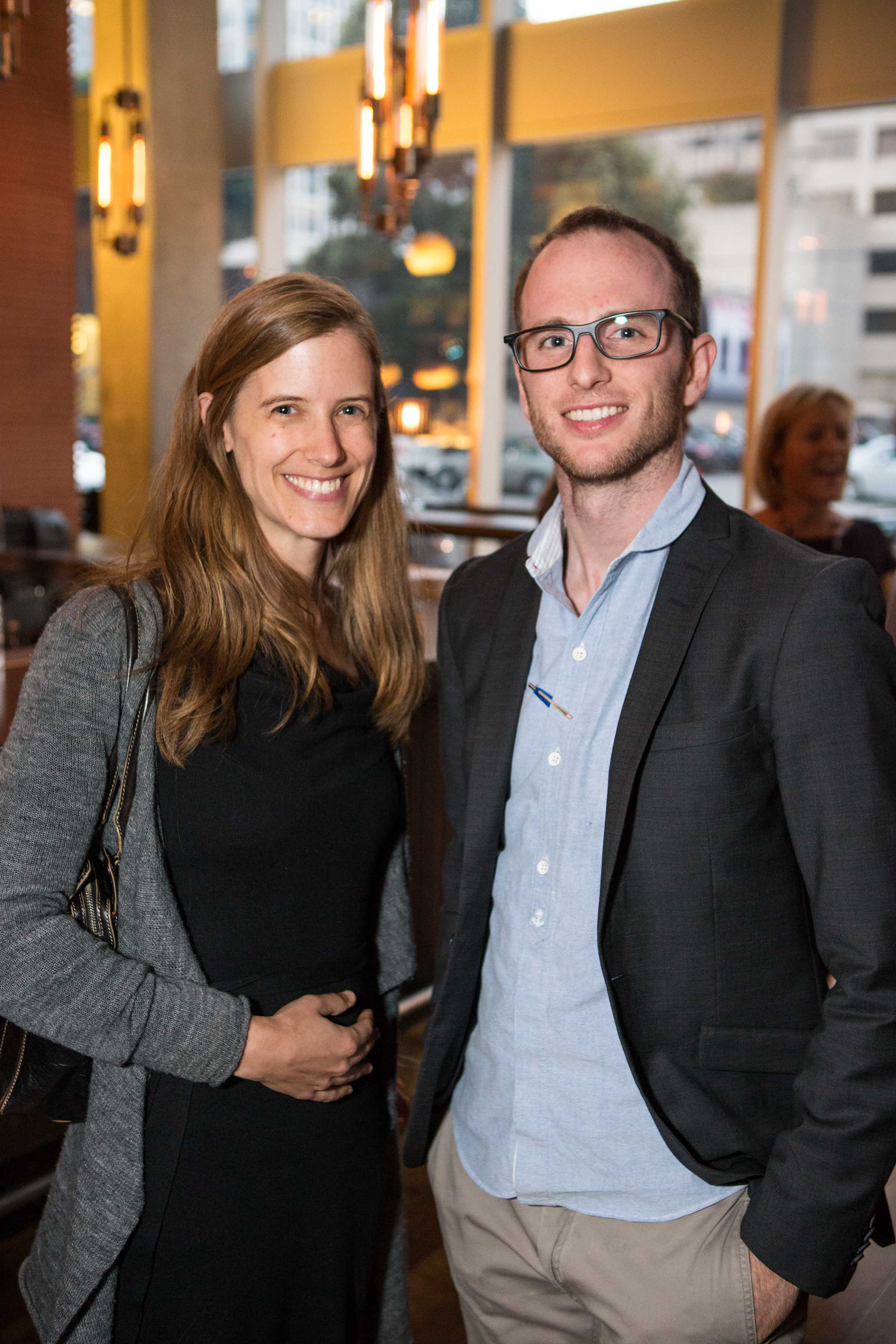 April Dembosky (Financial Times) and Joe Gebbia (Airbnb).